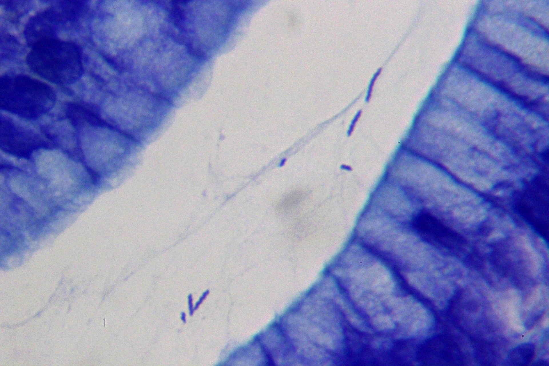 Helicobacter heilmannii.